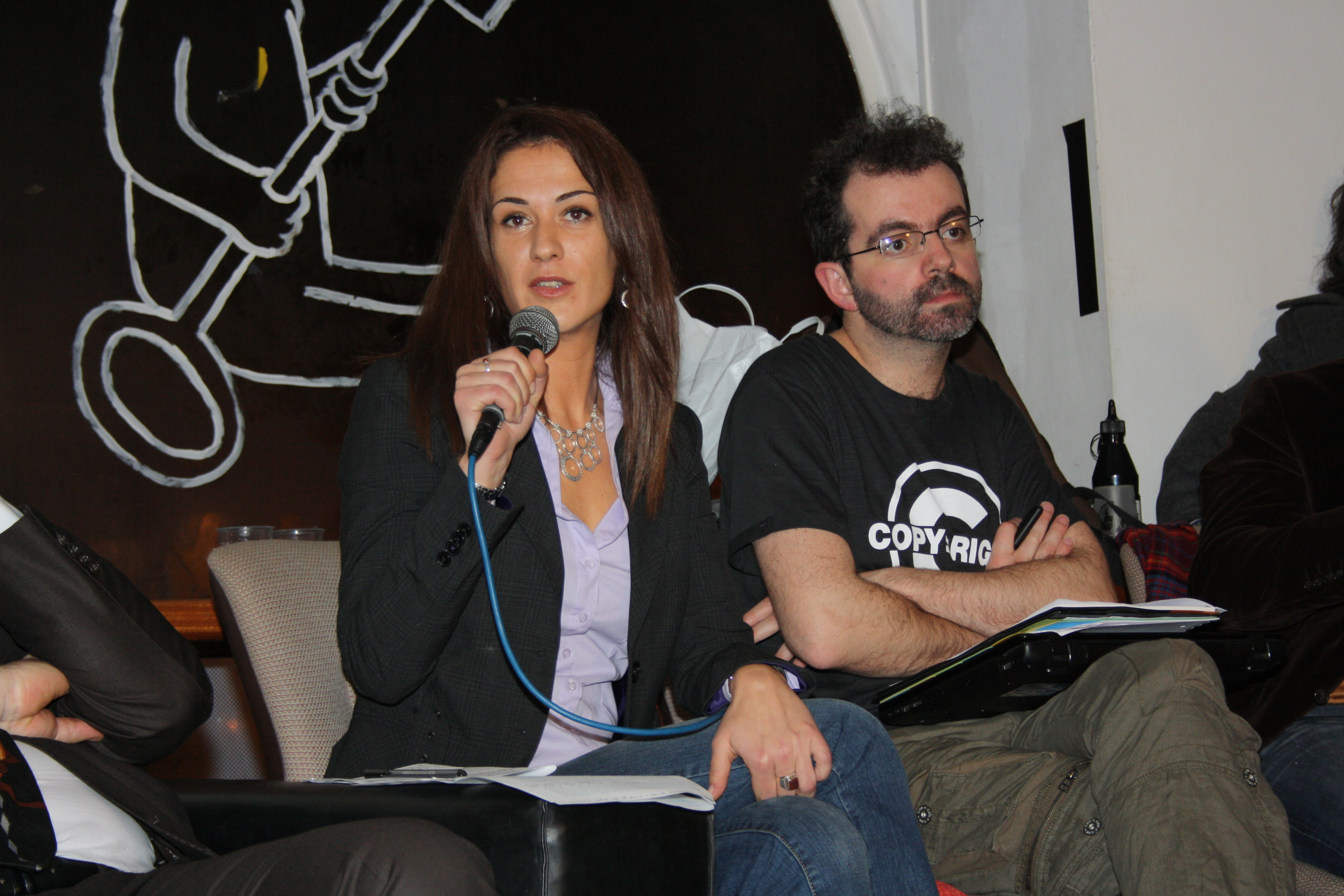 Sandrine Bélier, french environmental jurist, politician, member of the European Parliament and member of the Internet Core Group, at a meeting named Garantir les libertés publiques pour préserver les biens communs (Lutter contre les nouvelles enclosures) organised by Libre Accès in Paris, sunday, november, the 14th 2010.